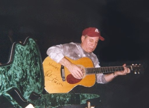 Paul Simon at the Olympia, Paris during the shooting of "You're the One" in concert.